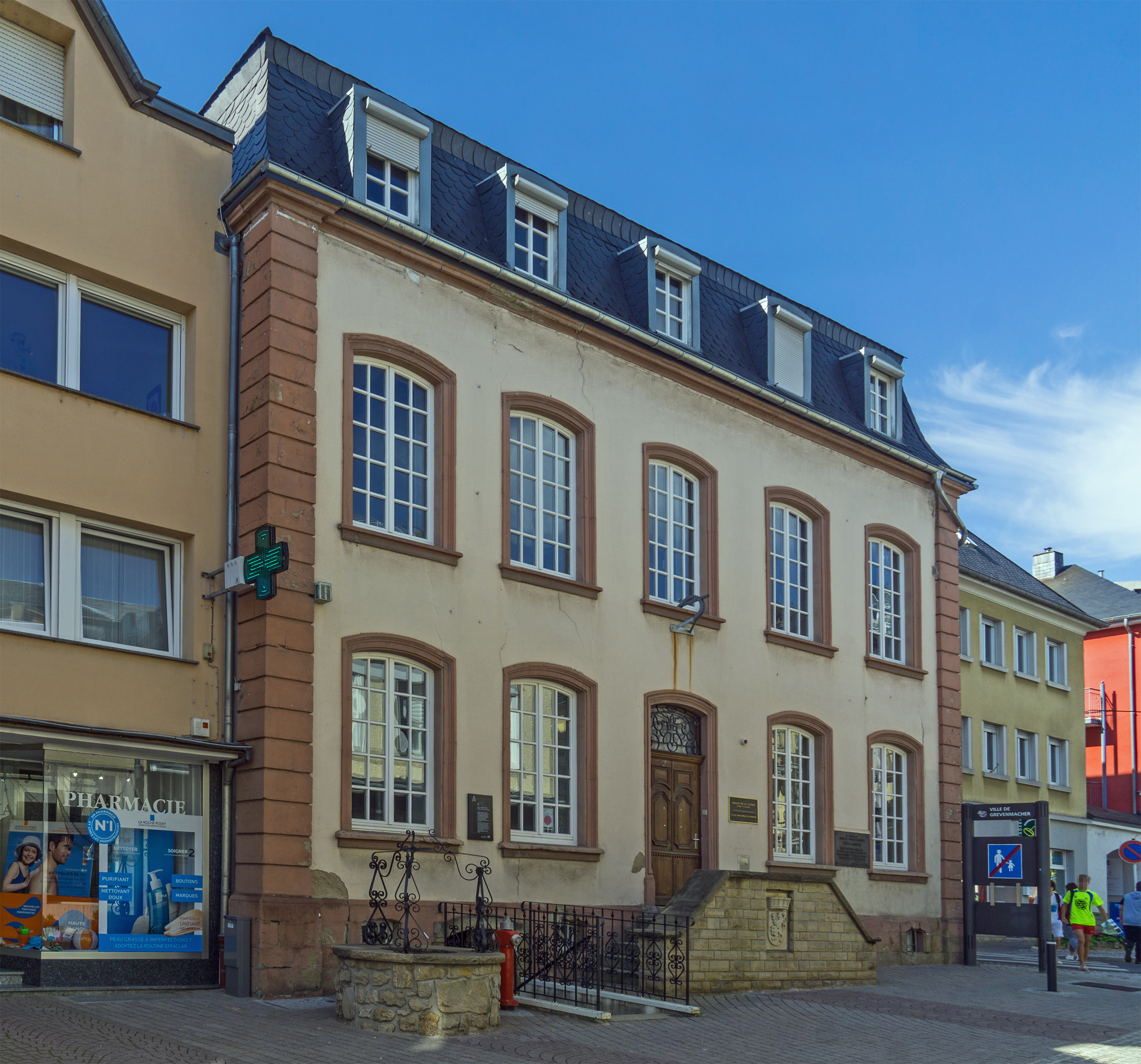 The Osbourg-house in Grevenmacher at the crossing of the route de Trêves and the rue Pierre d'Osbourg